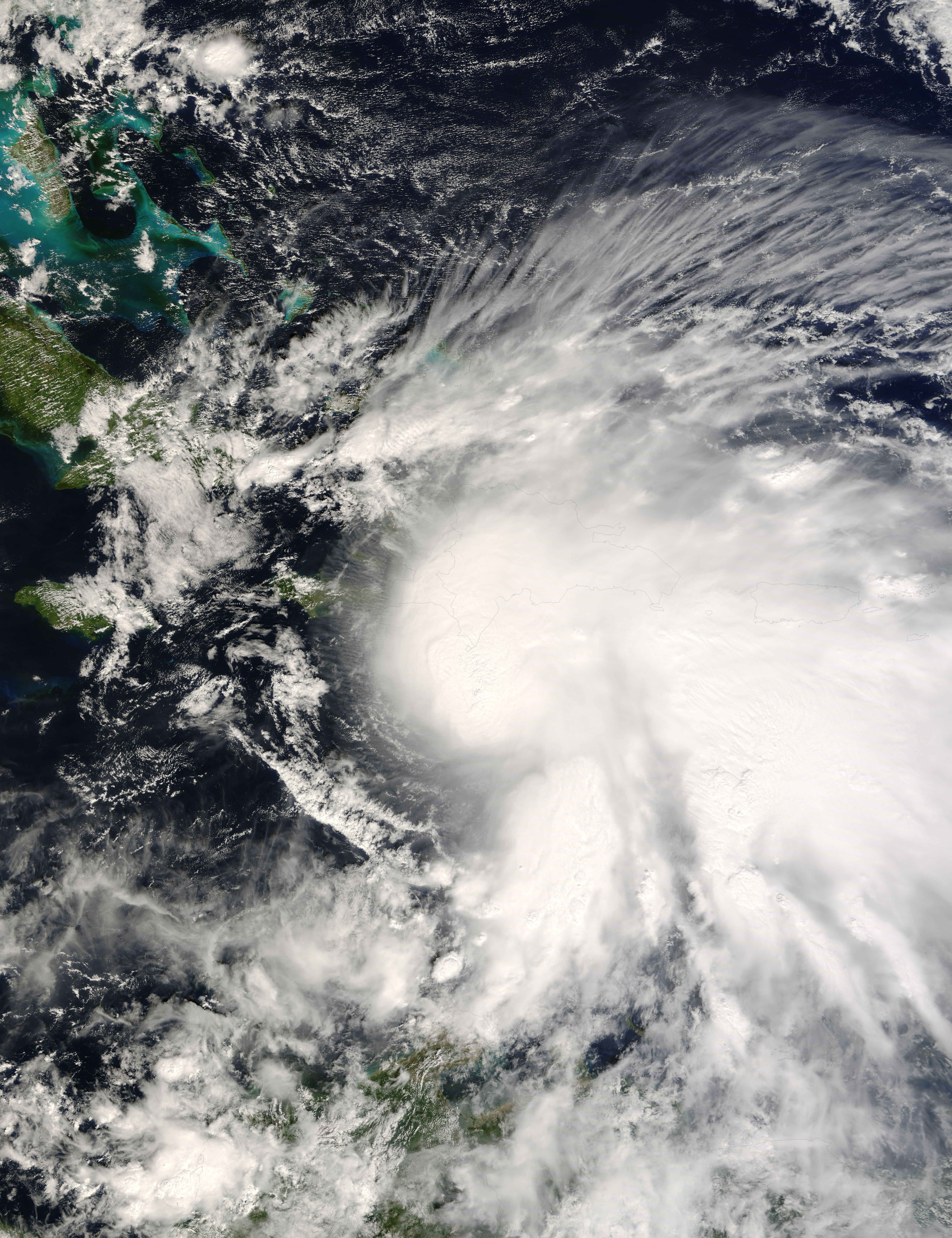 Tropical Depression 16 was intensifying into Tropical Storm Noel late in the morning of October 28, 2007, when the Moderate Resolution Imaging Spectroradiometer (MODIS) on NASA’s Terra satellite captured this image. Though still weak, the storm was beginning to take the distinct shape of a tropical cyclone. A dense circle of clouds converged over the Caribbean Sea just south of Haiti and the Dominican Republic, and a long tail of clouds curled over Puerto Rico. Shadows cast by towering thunderstorm clouds make the cloud layer appear to be boiling in places. At the time this image was acquired, Noel had winds of 65 kilometers per hour (40 miles per hour or 35 knots) with gusts to 83 km/hr (52 mph, 45 knots), said the National Hurricane Center. Despite relatively low wind speeds, the storm posed a serious threat to Hispaniola, the island encompassing the Dominican Republic and Haiti. The National Hurricane Center expected Noel to dump between 250 and 500 millimeters (10 and 20 inches) of rain on the island, with a few isolated areas receiving up to 760 mm (30 inches) of rain. The heavy rainfall has the potential to trigger deadly floods and mudslides. Tropical Storm Jeanne was just a tropical storm when its heavy rain caused extensive floods and mudslides that killed at least 1,500 Haitians in September 2004. Haiti is particularly vulnerable to flash flooding and landslides because of the widespread deforestation of its mountainous terrain. The large image provided above is at MODIS’ maximum resolution of 250 meters per pixel. The image is available in additional resolutions from the MODIS Rapid Response System.